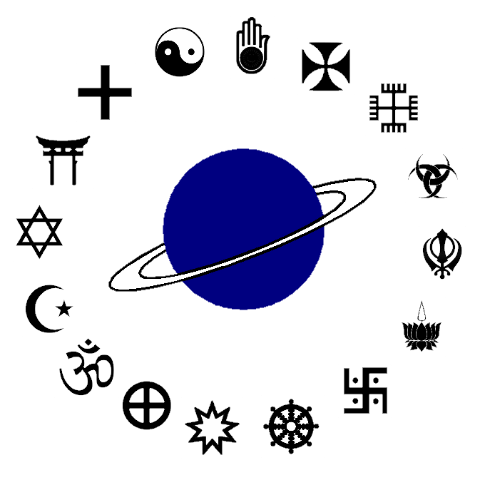 Made by me, using Open office, and symbols from commons.